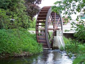 The Mill Creek Water Wheel is a well-known landmark in Dwight Lydell Park downtown.